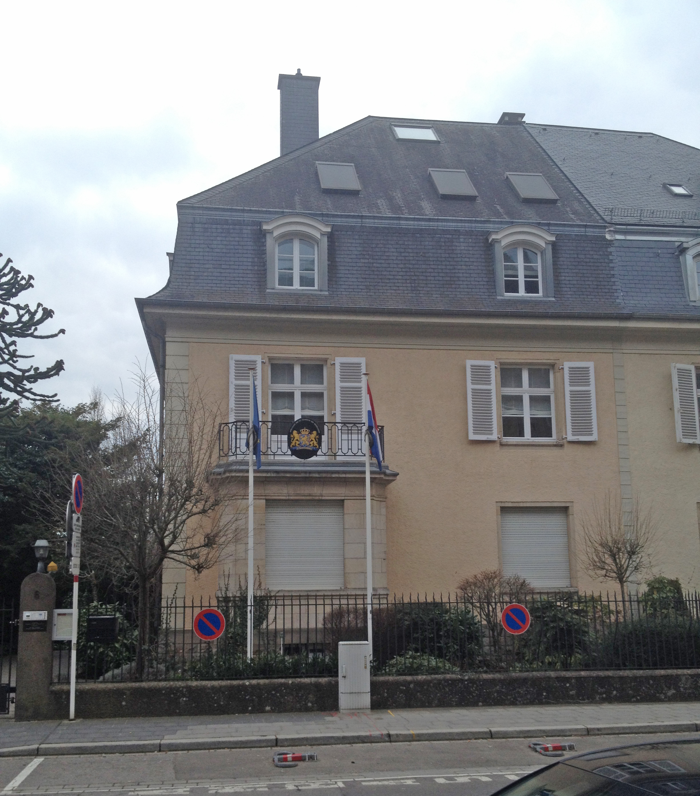 Dutch embassy in the city of Luxembourg.